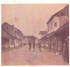 Ferizaj